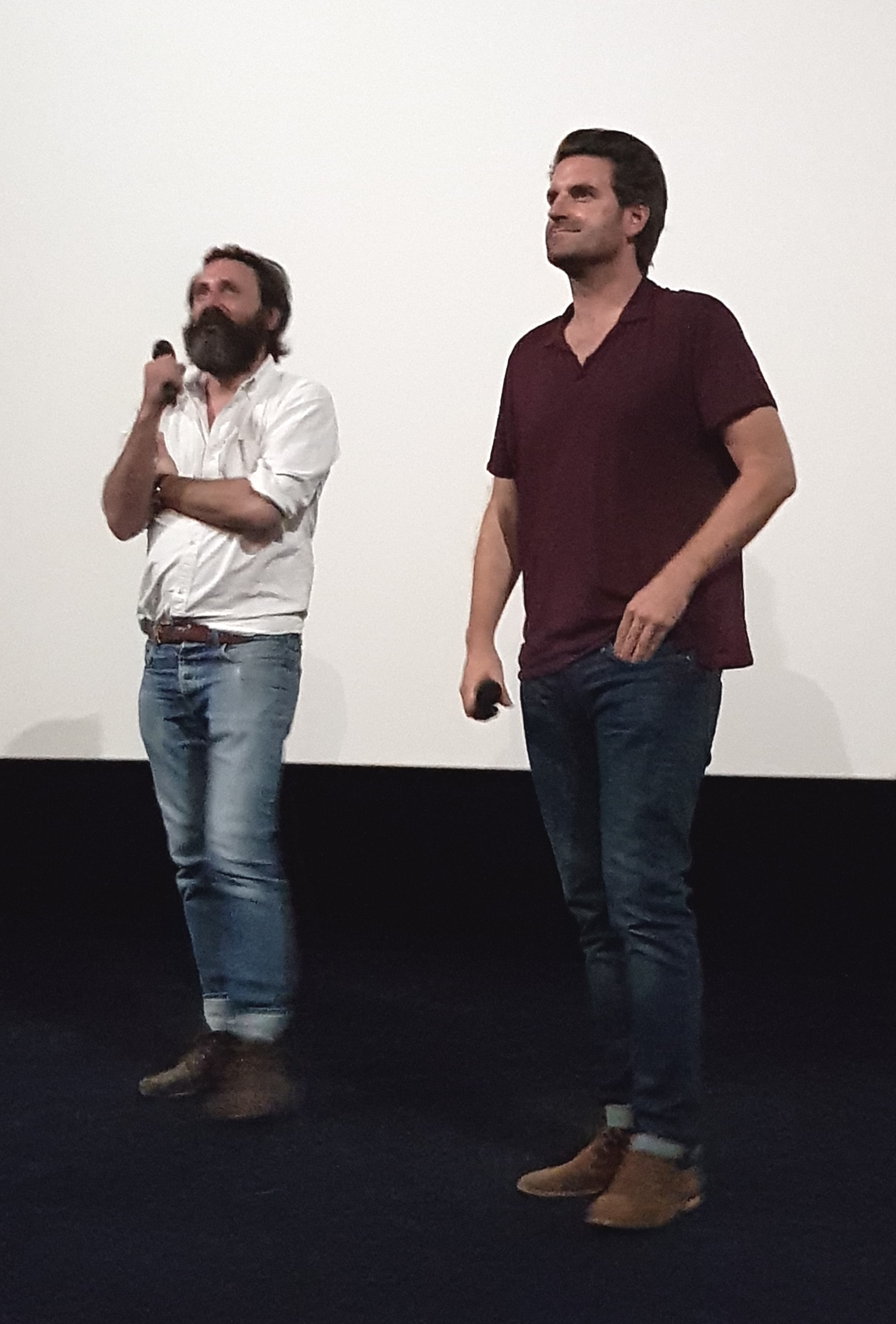 "Au poste !" Premiere with director Quentin Dupieux and actor Grégoire Ludig